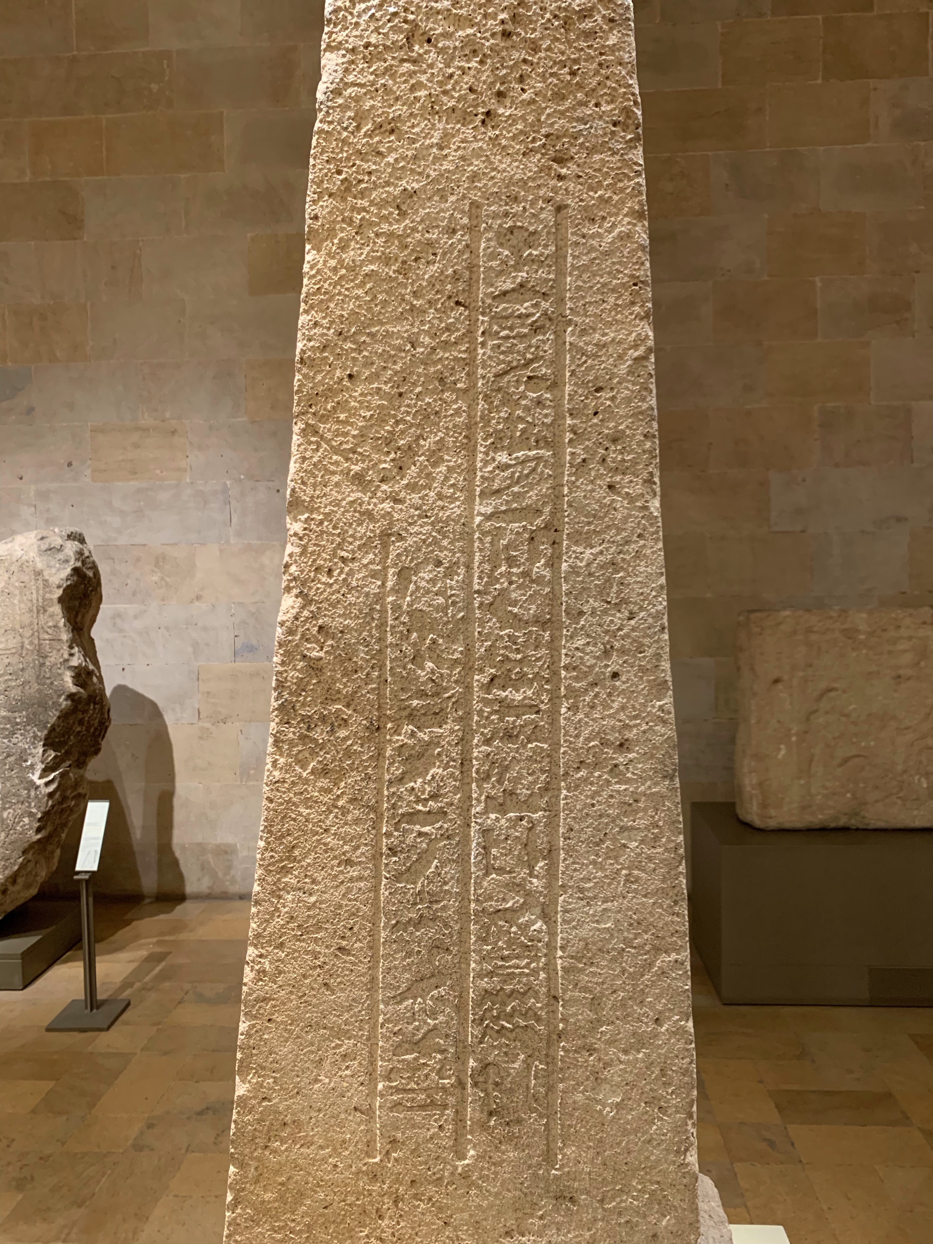 National Museum of Beirut – Resheph obelisk close up